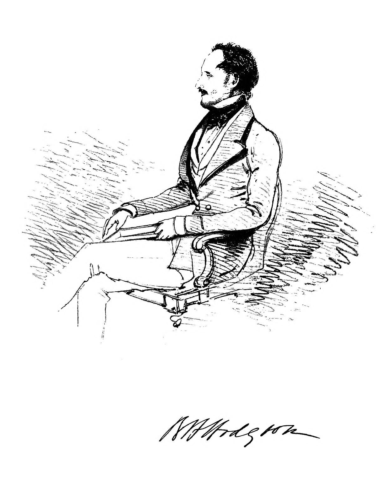 Brian Houghton Hodgson c. 1849 drawn by William Tayler